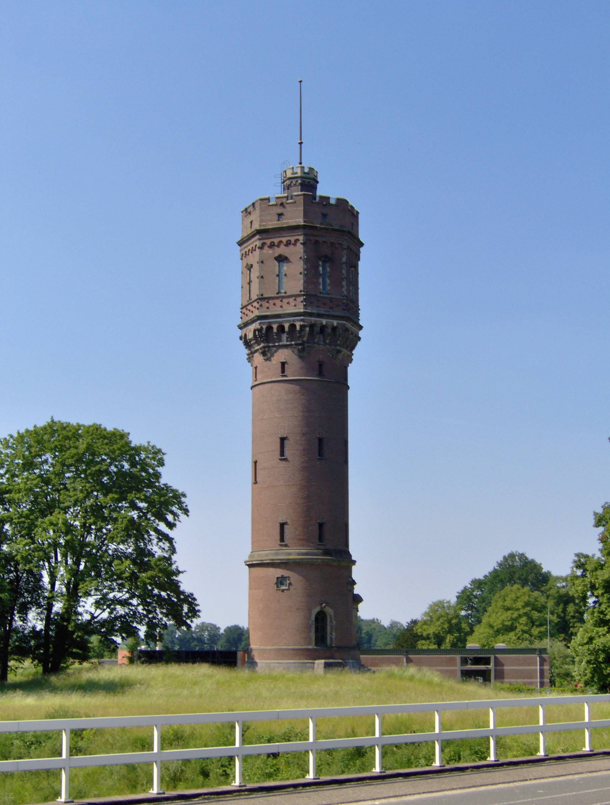 The water tower in the city of Delden in the province of Overijssel, the Netherlands.